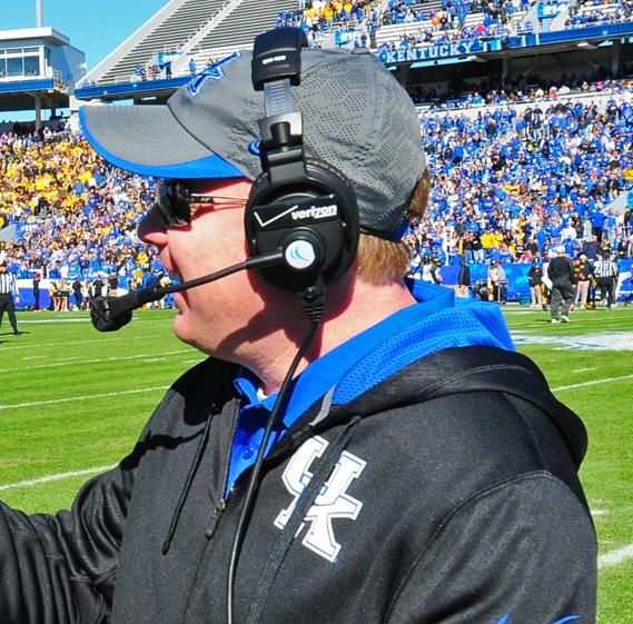 Description in original photo: "Kentucky's Adjutant General, Maj. Gen. Edward W. Tonini greets University of Kentucky football head coach, Mark Stoops at Commonwealth Stadium in Lexington, Ky. Nov. 9, 2013."